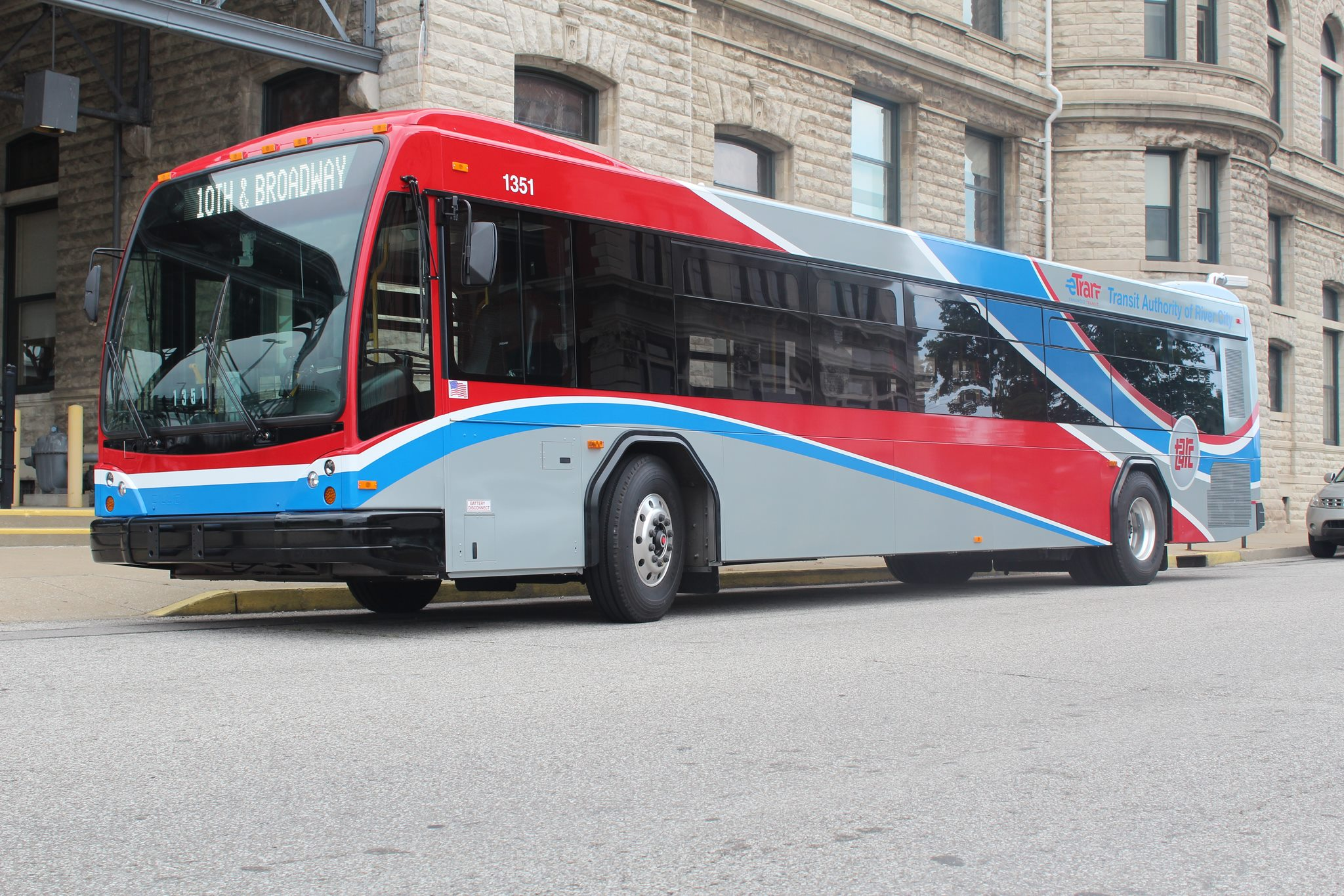 Gillig Brt 1351